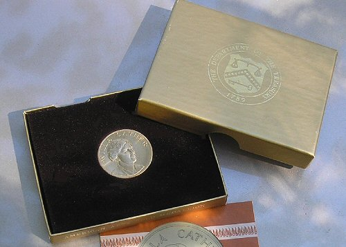 The 1981 Willa Cather half-ounce gold coin. Made by the US Mint.